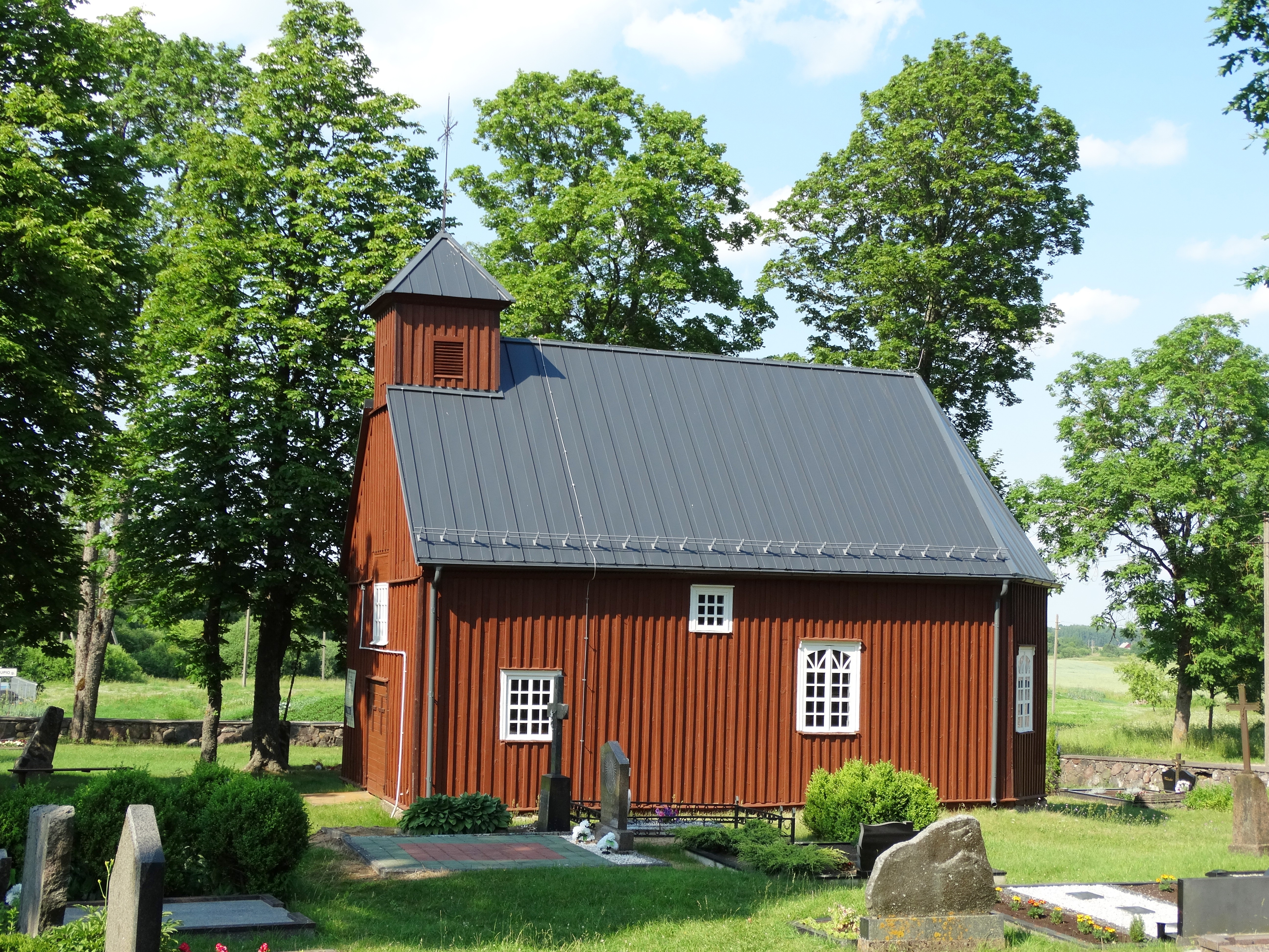 Church of Saint Mary the Virgin in Mitkaičiai, Telšiai district, Lithuania